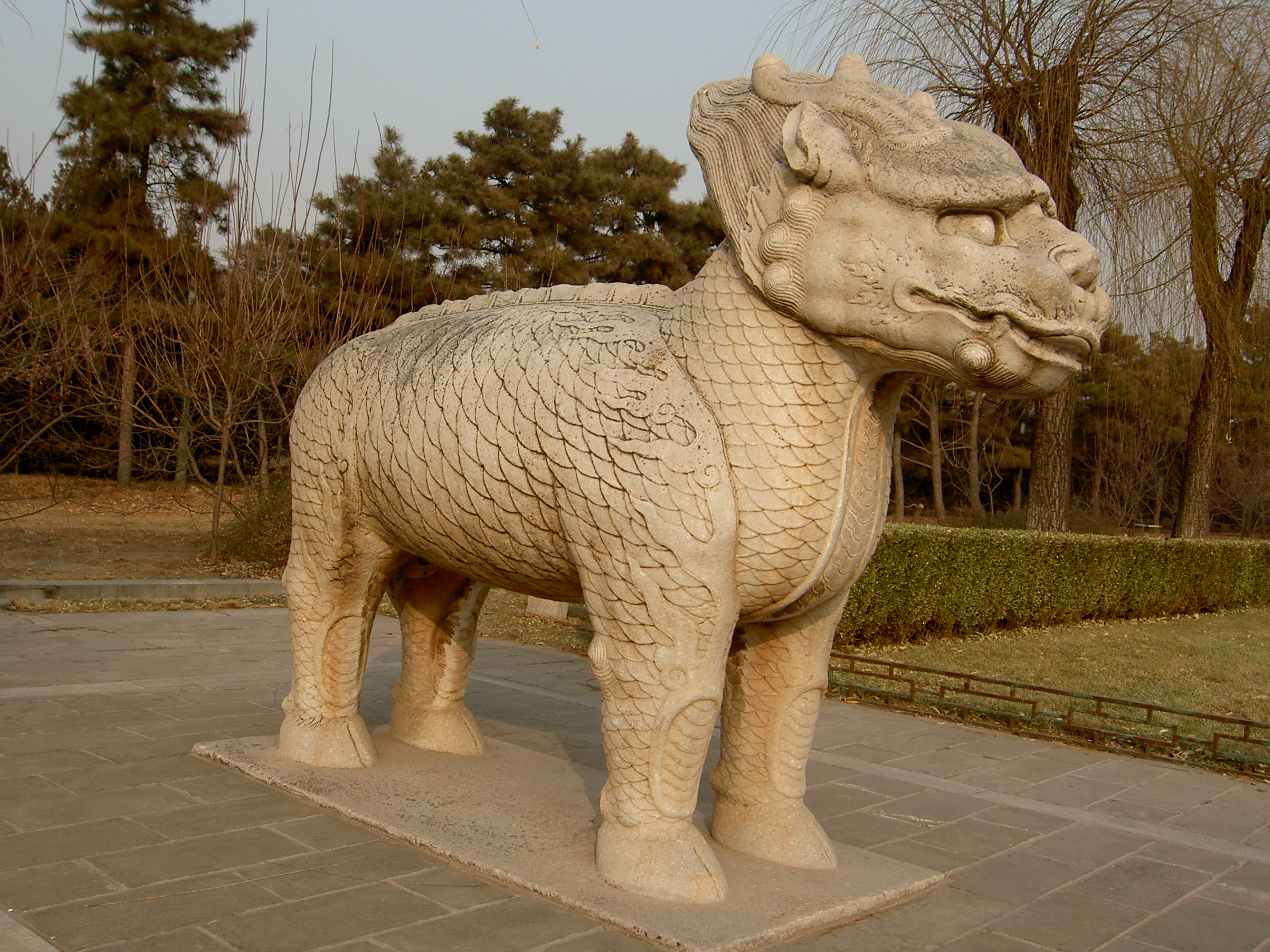 author : ofol date 29-12-2005 voie des âmes, Changping, région de pékin "ways of souls" tombs of the Emperors of the Ming Dynasty (AD 1368 to 1644). 50km north west of Beijing, in Changping. beijing region, ming graves, way of souls